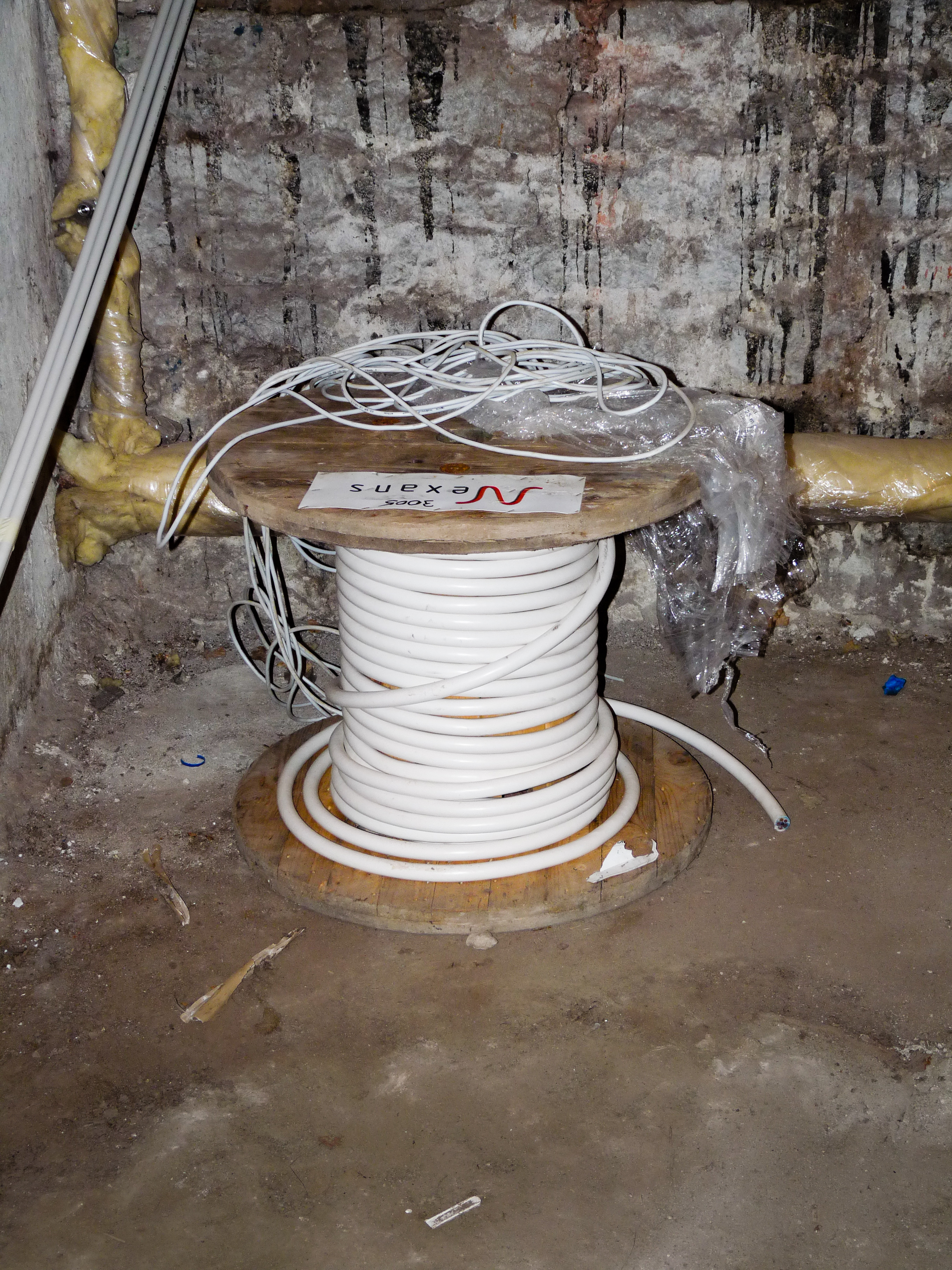 Power cable 5G16 5 means 5 wires G means GROUND wire (green-yellow) 16 means each wire is 16mm²